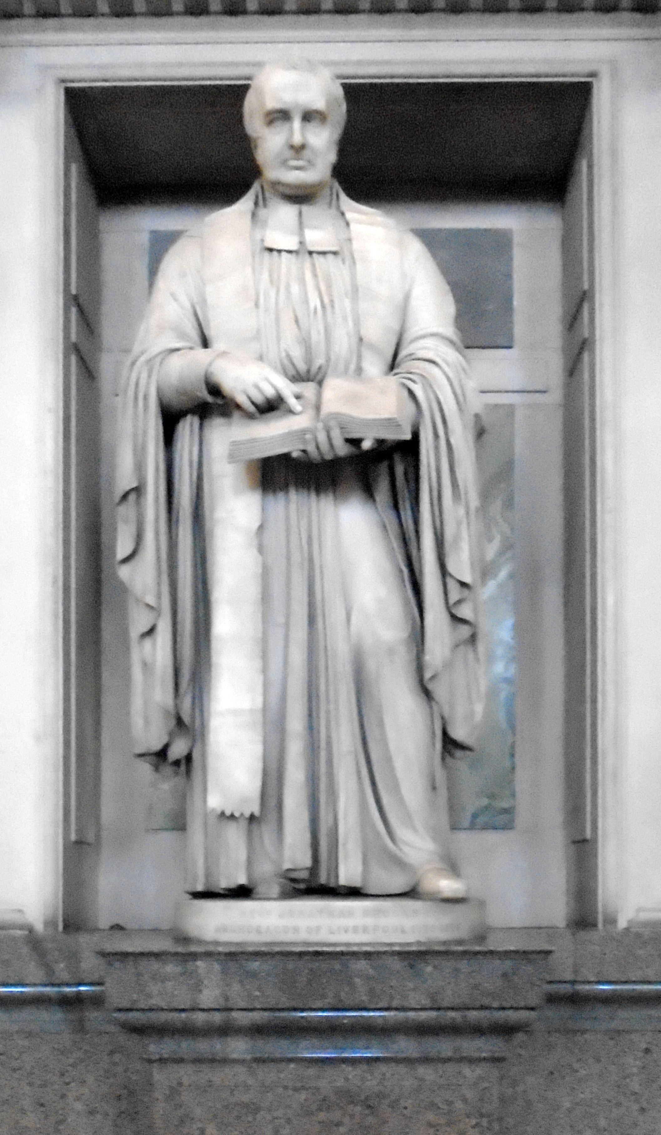 Close up